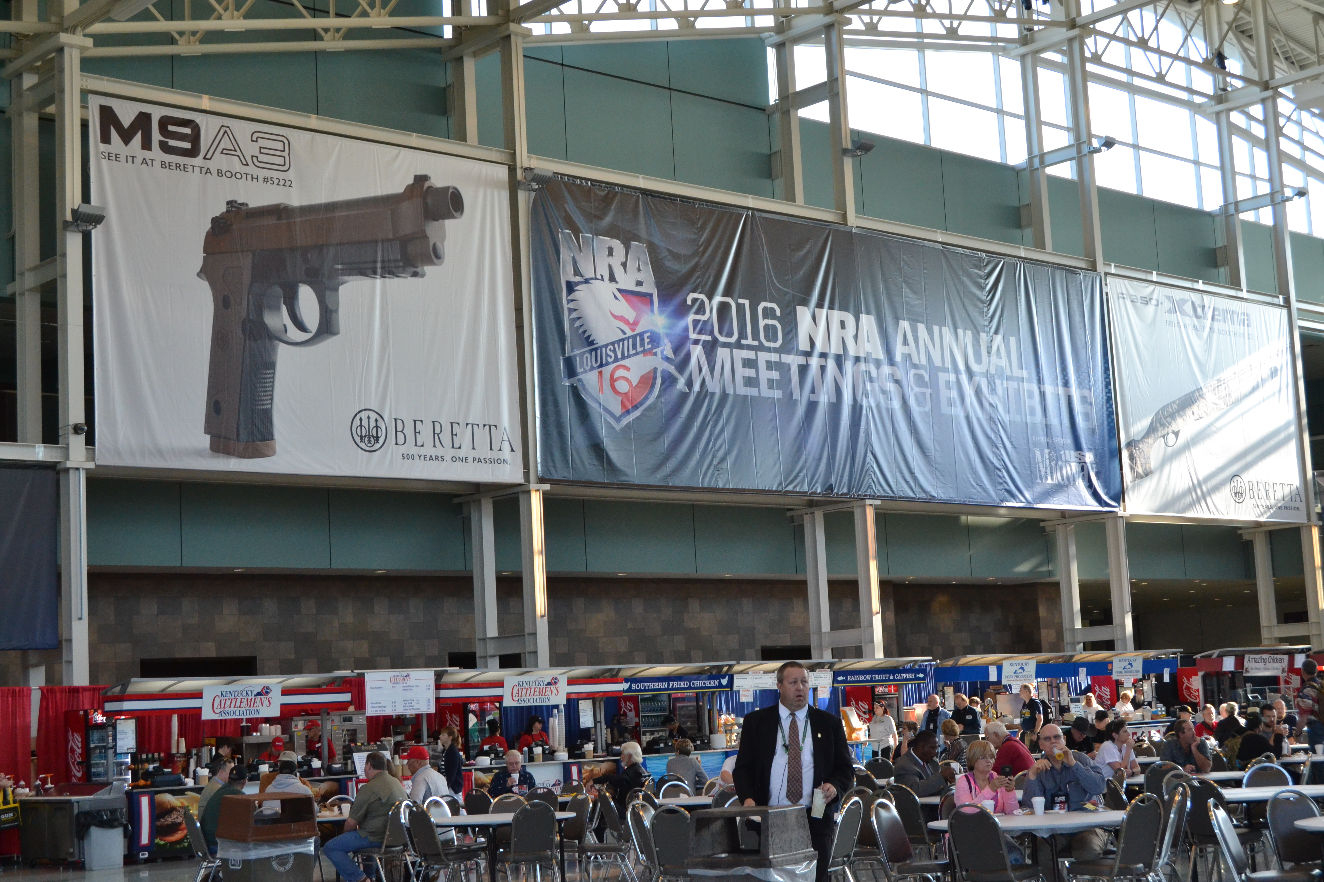 NRAAM2016 (23) 2016 NRA Annual Meeting